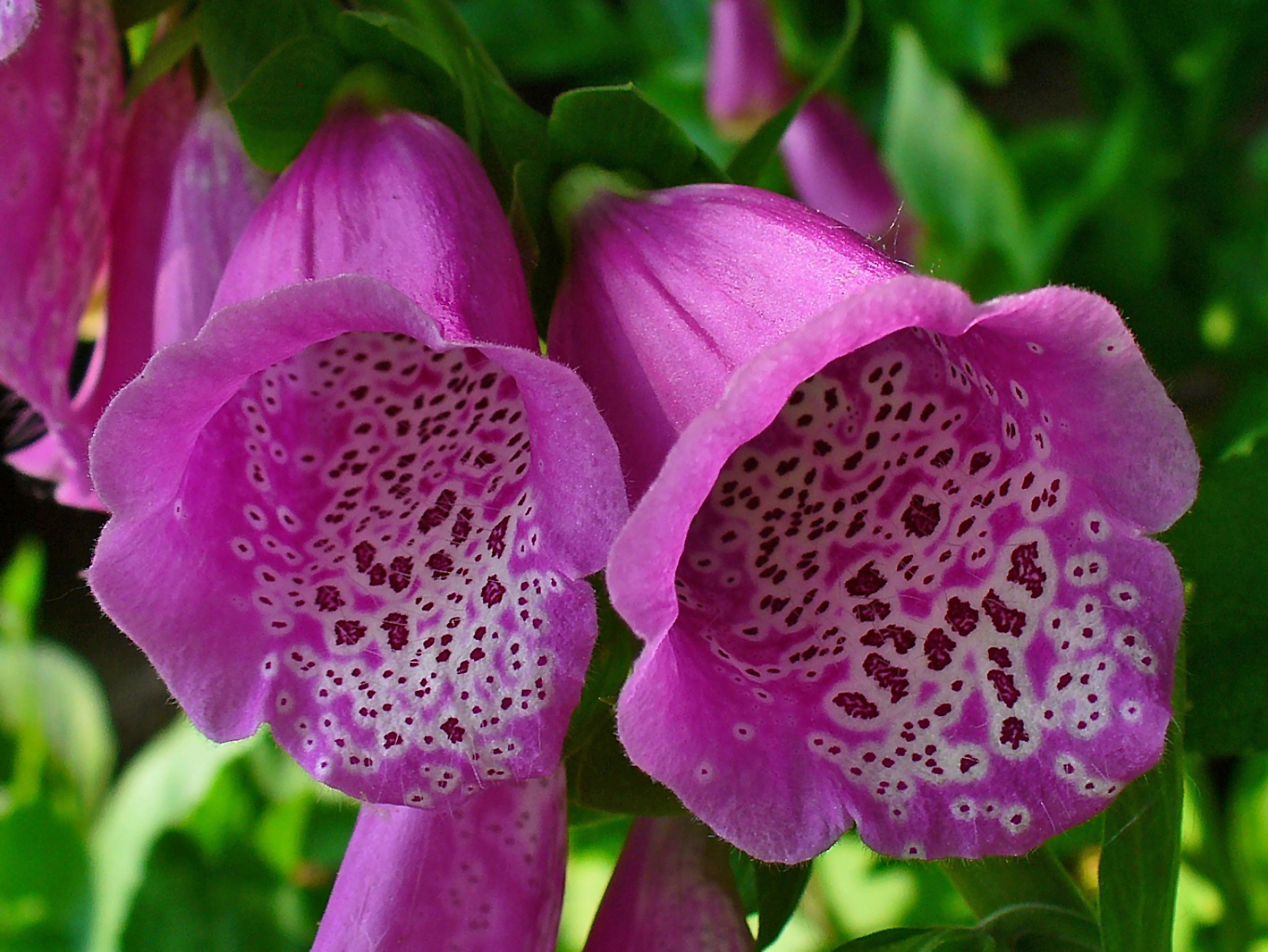 Digitalis purpurea, Plantaginaceae, Common Foxglove, Purple Foxglove, Lady's Glove, flowers; Botanical Garden KIT, Karlsruhe, Germany. The fresh leaves are used in homeopathy as remedy: Digitalis (Dig.)